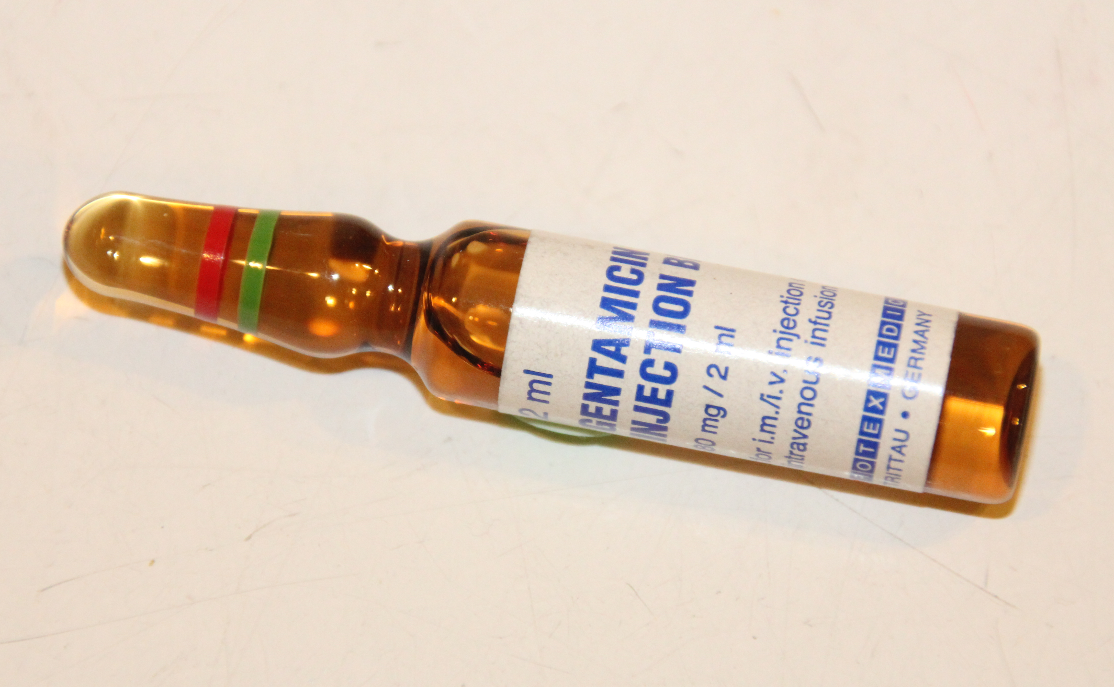 A sample of gentamicin for injection, 40 mg/ml